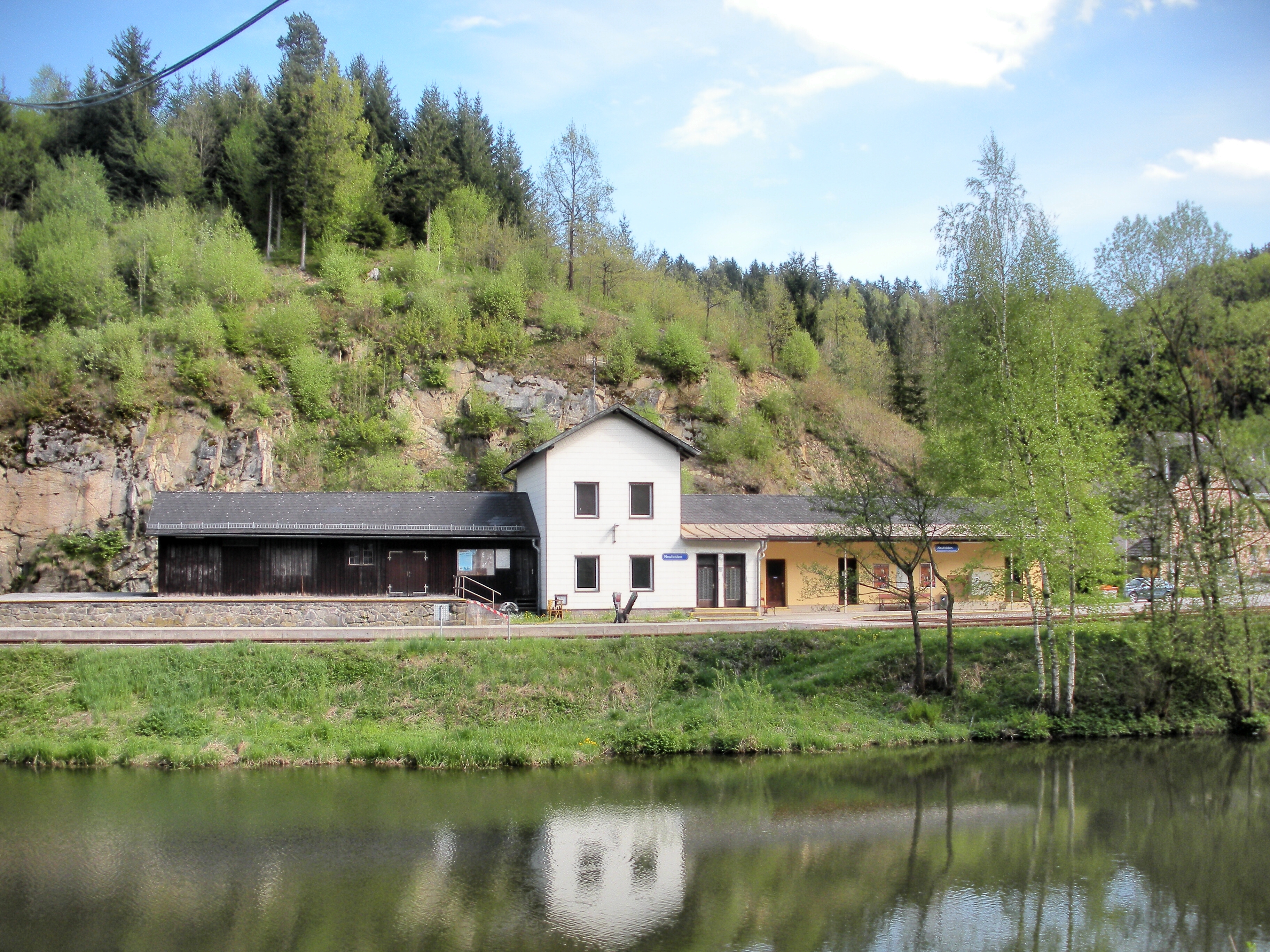 station of Neufelden in Upper Austria with the "Große Mühl" in the foreground